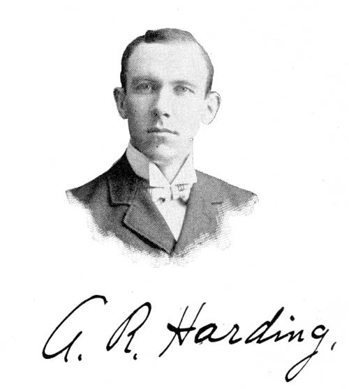 Photo of A. R. (Arthur Robert) Harding